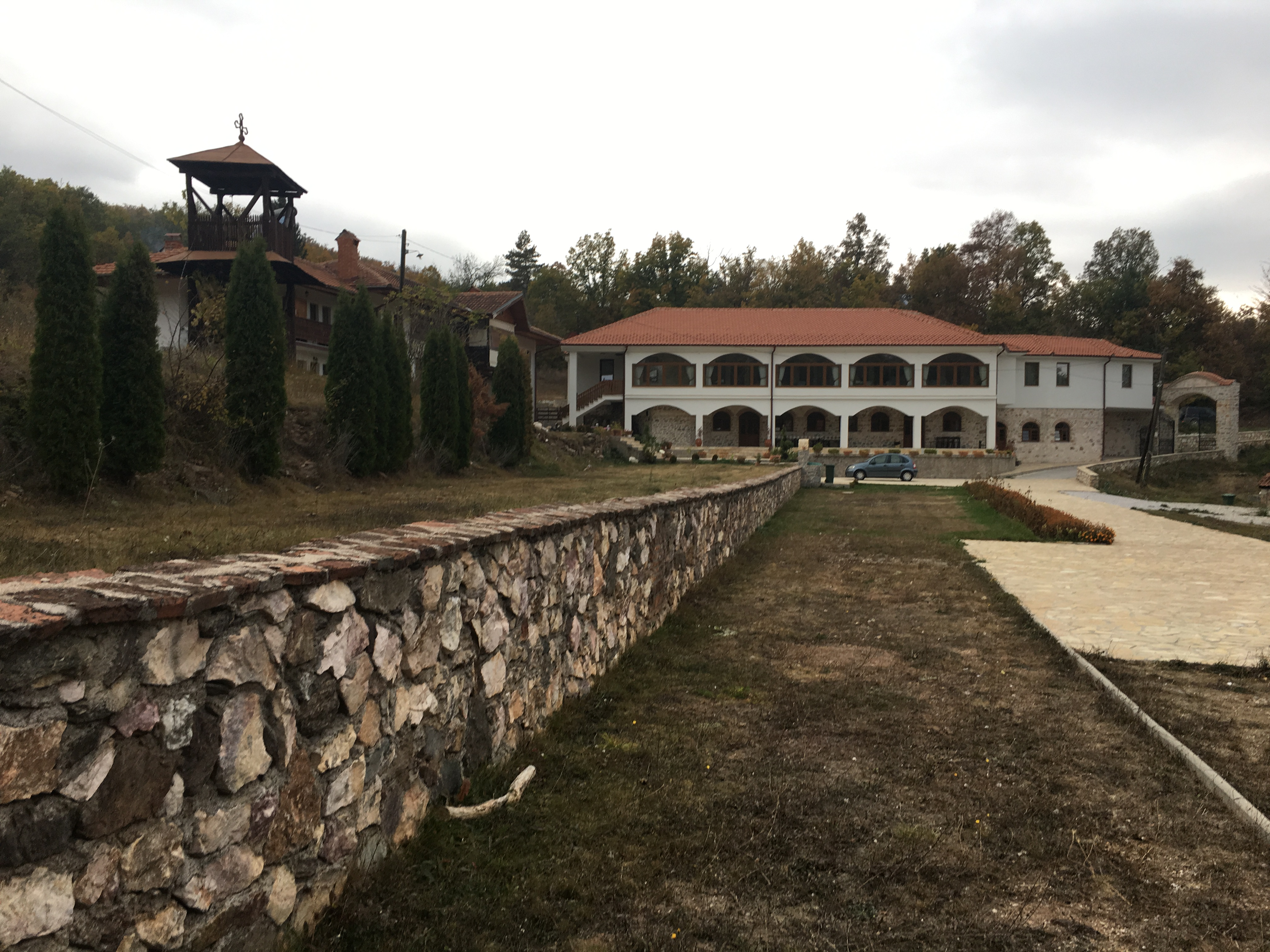 Wikiexpedition to Kopačka